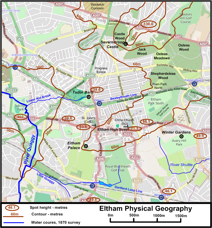 Diagram of Eltham physical geography